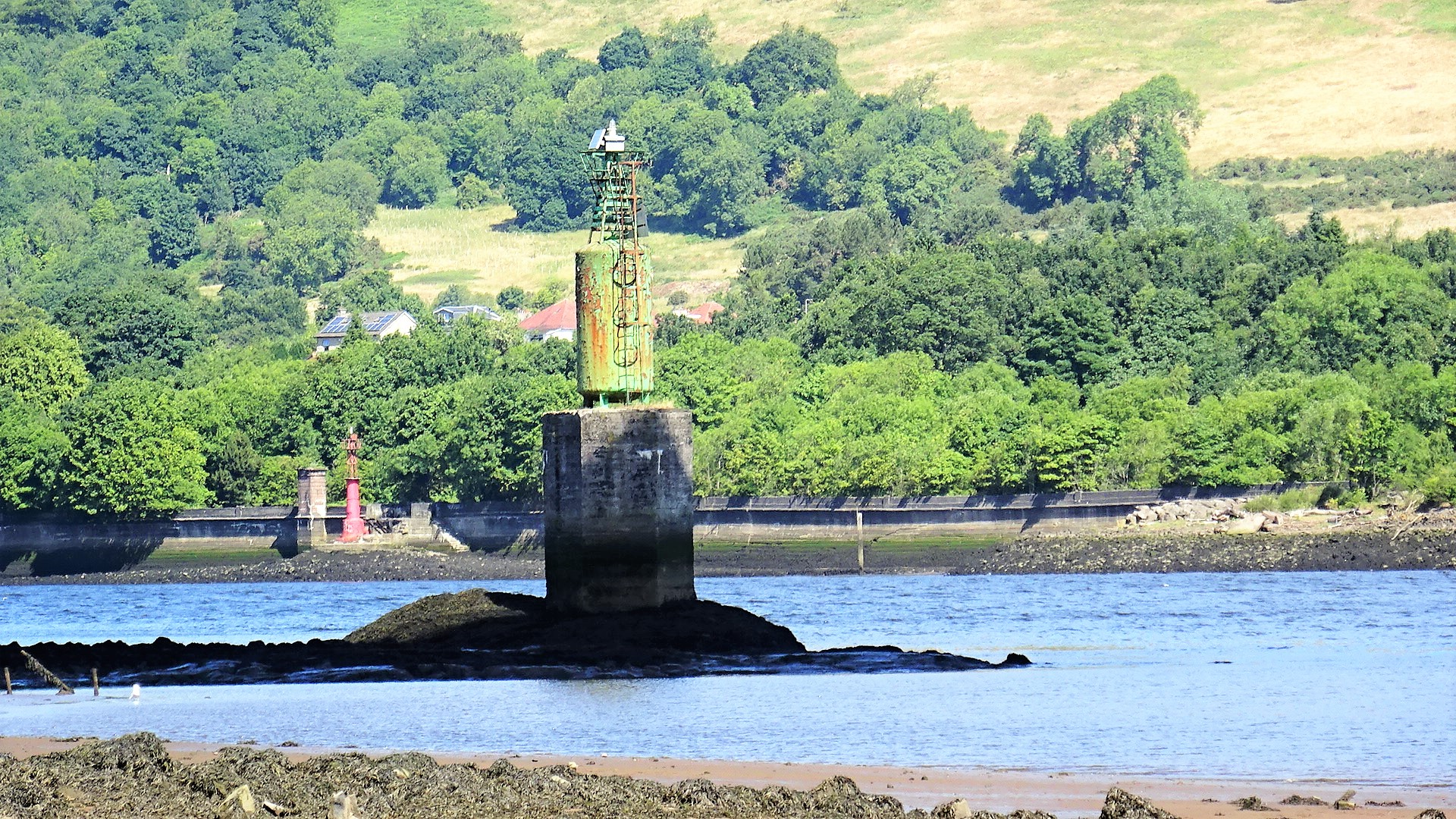 St Patrick's Rock & Light, River Clyde - low tide. Viewed from Erskine Ferry beach.